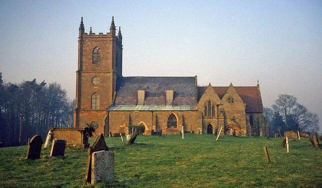 St Mary the Virgin parish church, Hanbury, Worcestershire, seen from the south